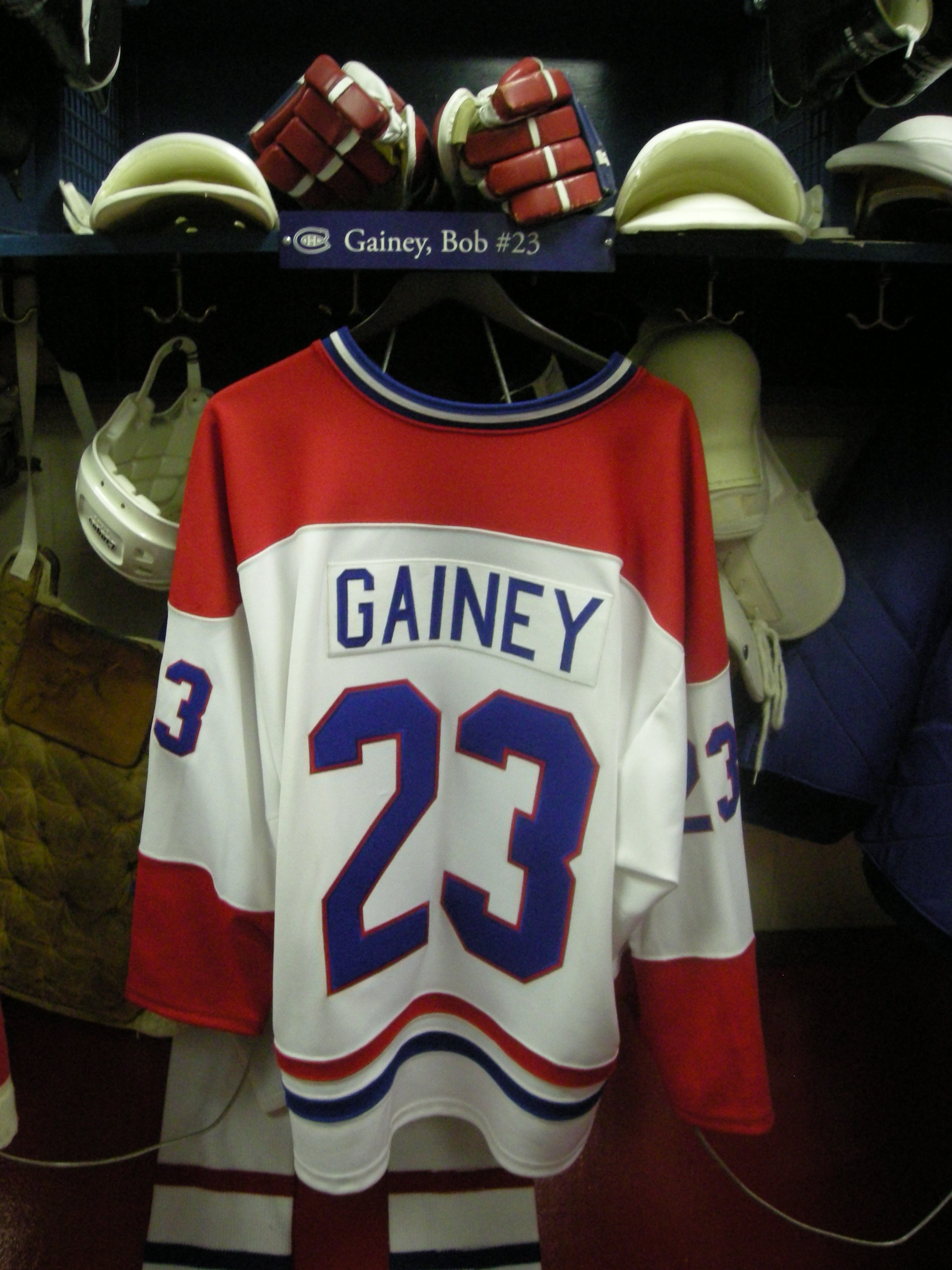 Bob Gainey's jersey in the replica of the Montreal Canadiens dressing room at the Hockey Hall of Fame in Toronto, Ontario (Canada).